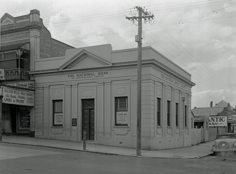 National Bank of Australasia, 89 Brisbane Street, Ipswich, 1951, formerly Queensland National Bank